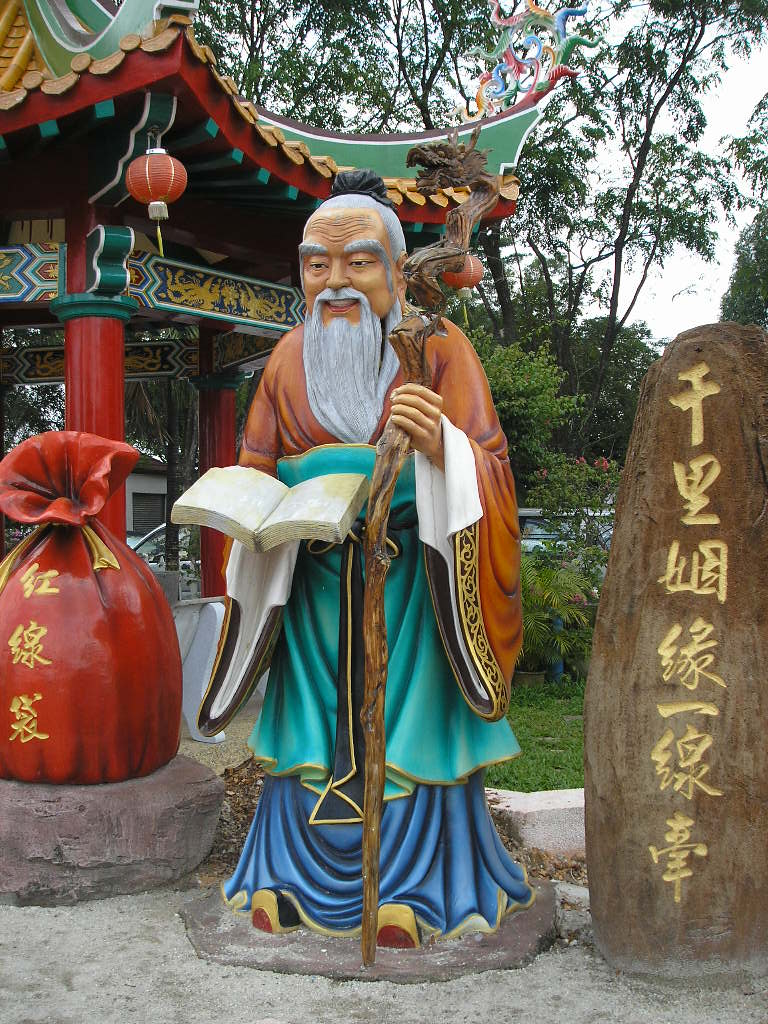 Statue of a wise man, at the Thean Hou Temple, Kuala Lumpur. Somebody with Chinese skills please identify statue